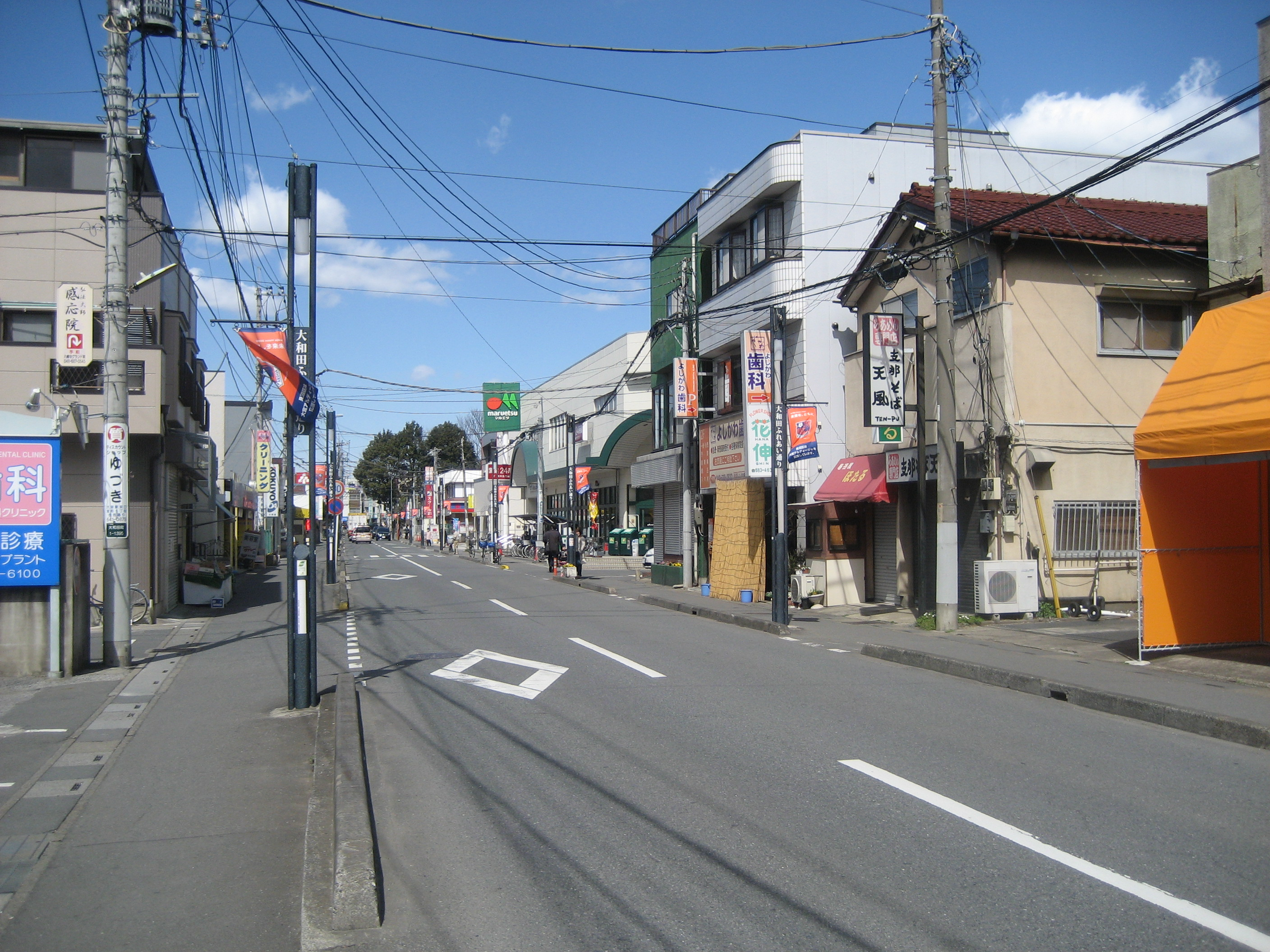 The Saitama Prefectural Road Route 398 near Owada Station in Minuma-ku, Saitama City